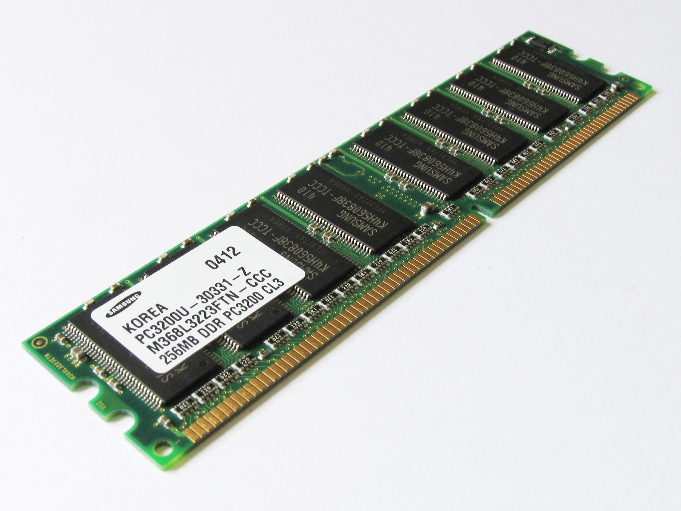 Samsung PC3200U-30331-Z 256MB